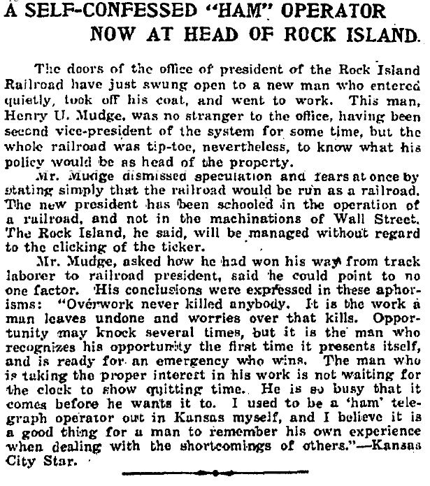 Newspaper article about the president of railroad (Hnery U. Mudge) who describes himself as a former "ham" telegraph operator. Quote: "I used to be a 'ham' telegraph operator out in Kansas myself, and I believe it is a good thing for a man to remember his own experience when dealing with the shortcomings of others."